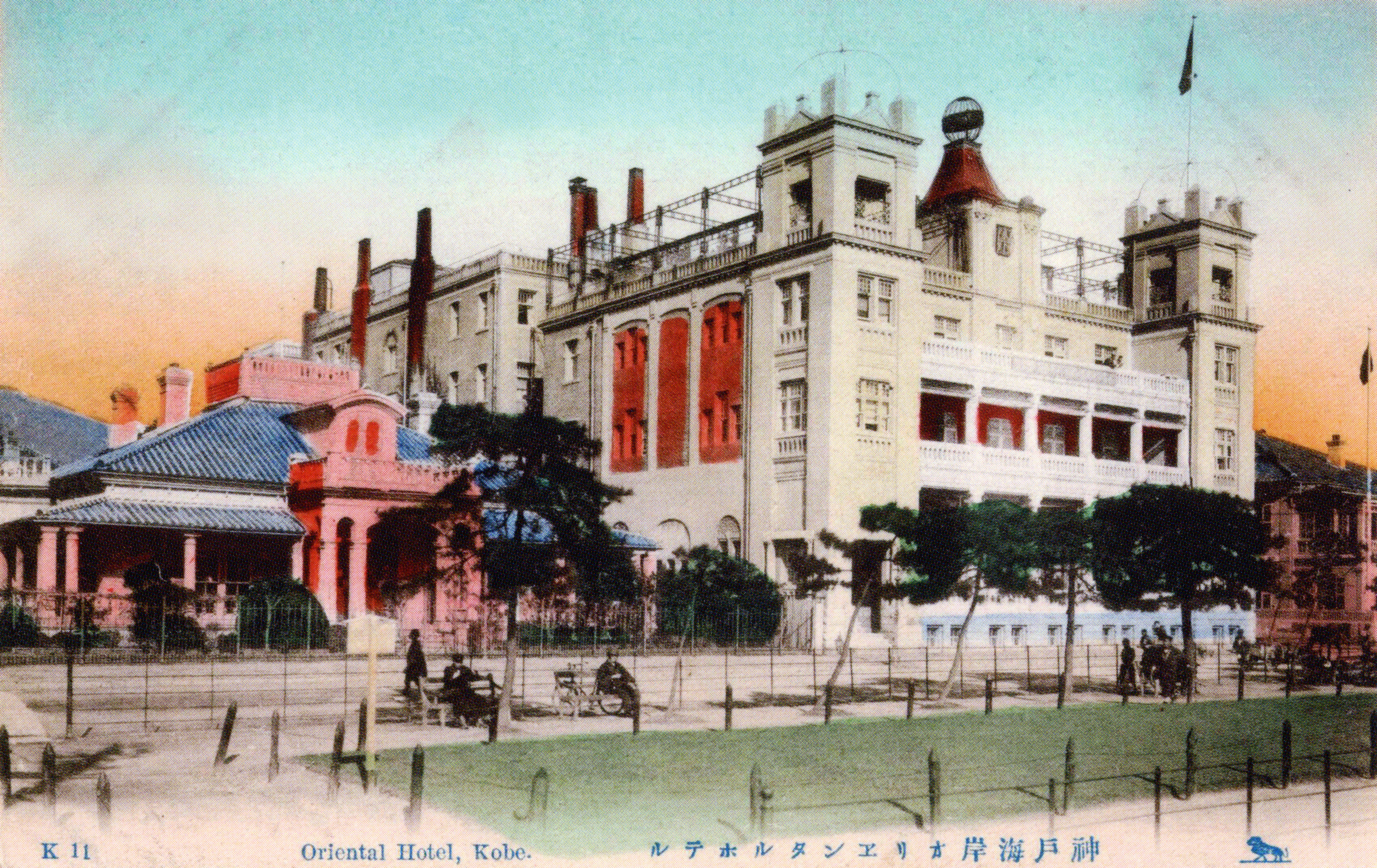 The Oriental Hotel in Kobe, Hyogo prefecture, Japan. Opening in 1870. This photograph is the third generation building. It was built in 1907, and lost in 1945. Design by George de Lalande (1872-1914).